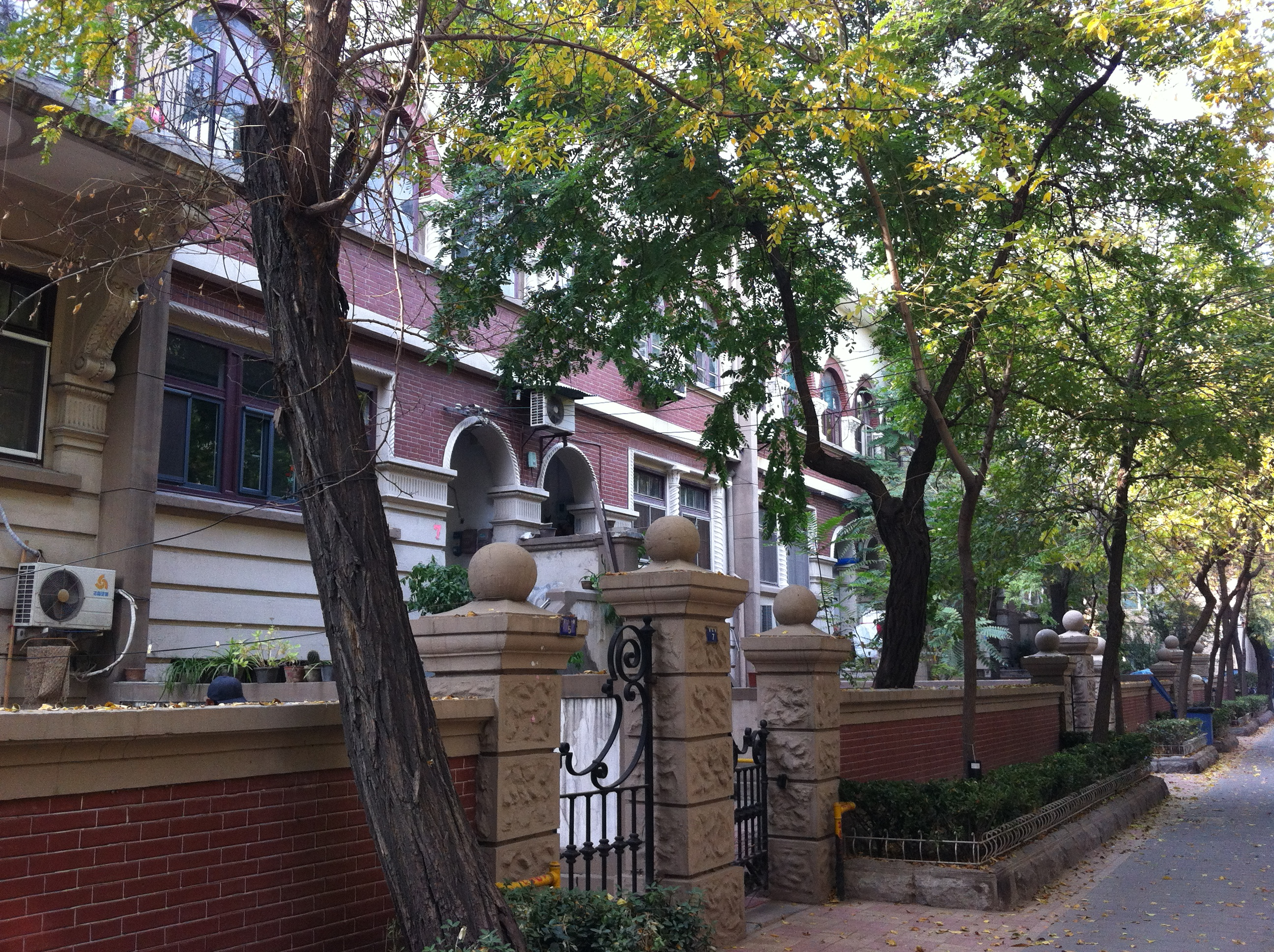 Munan Dao Anle Village No. 1–19